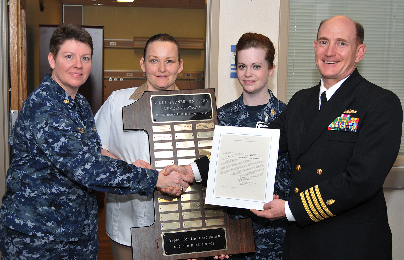 PORTSMOUTH, Va. (Feb. 22, 2010) Lt. Cmdr. Lisa Rose, left, Lt. Shauna Grover and Lt. Sarah Ledford accept the Vikki Garner Memorial Award for Excellence in Quality Improvement from Capt. Matthew Pommer, acting commander for Naval Medical Center Portsmouth, for their ward's Palliative Care Program. The Vikki Garner Memorial Award for Excellence in Quality Improvement is given semi-annually to the individual or team that has made the greatest contribution to quality improvement at Naval Medical Center Portsmouth or its branch clinics. (U.S. Navy photo by Mass Communication specialist 2nd Class William Heimbuch/Released)